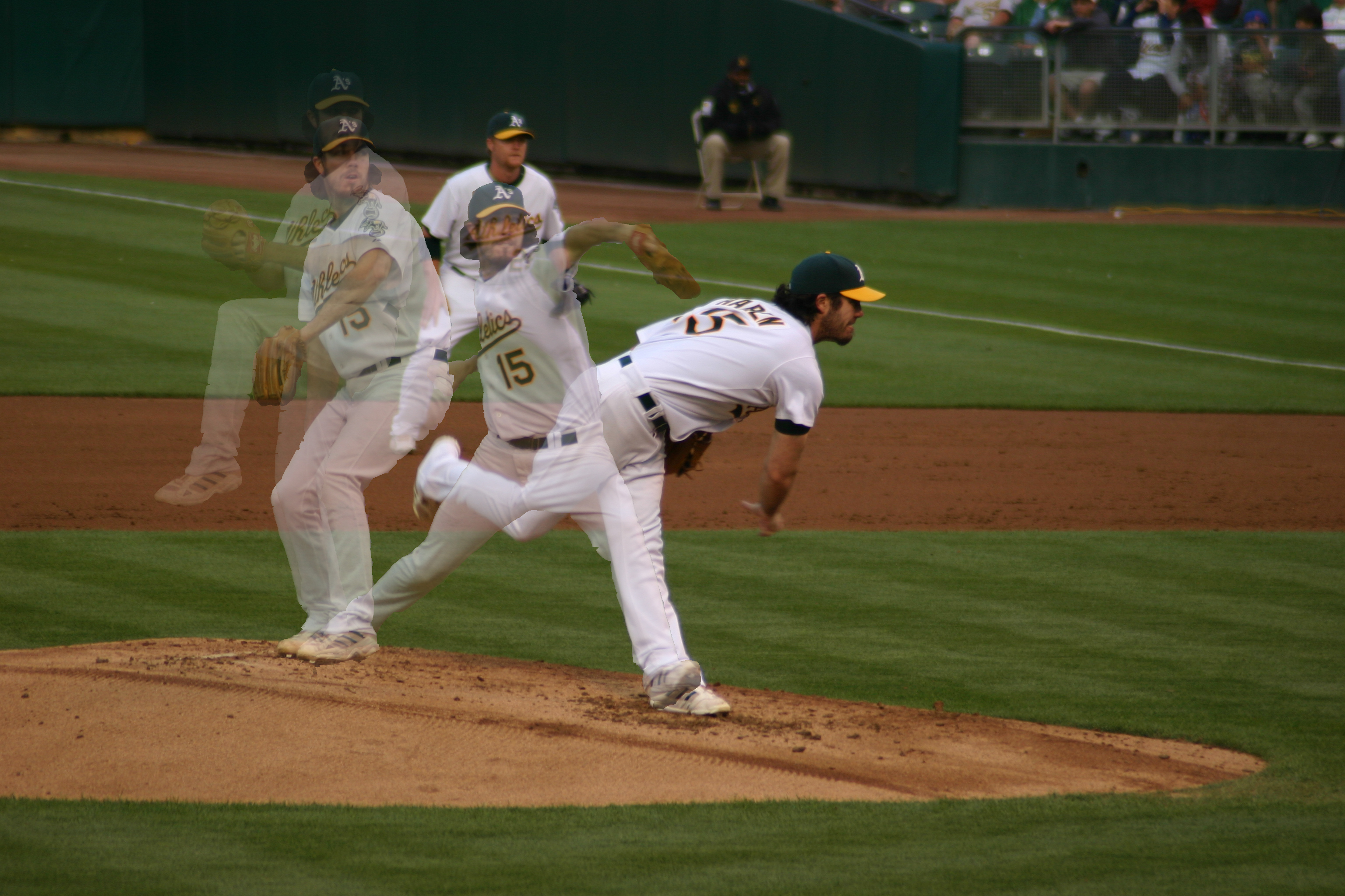 Friday night's losing effort against the Seattle Mariners in Oakland McAffee Coliseum.